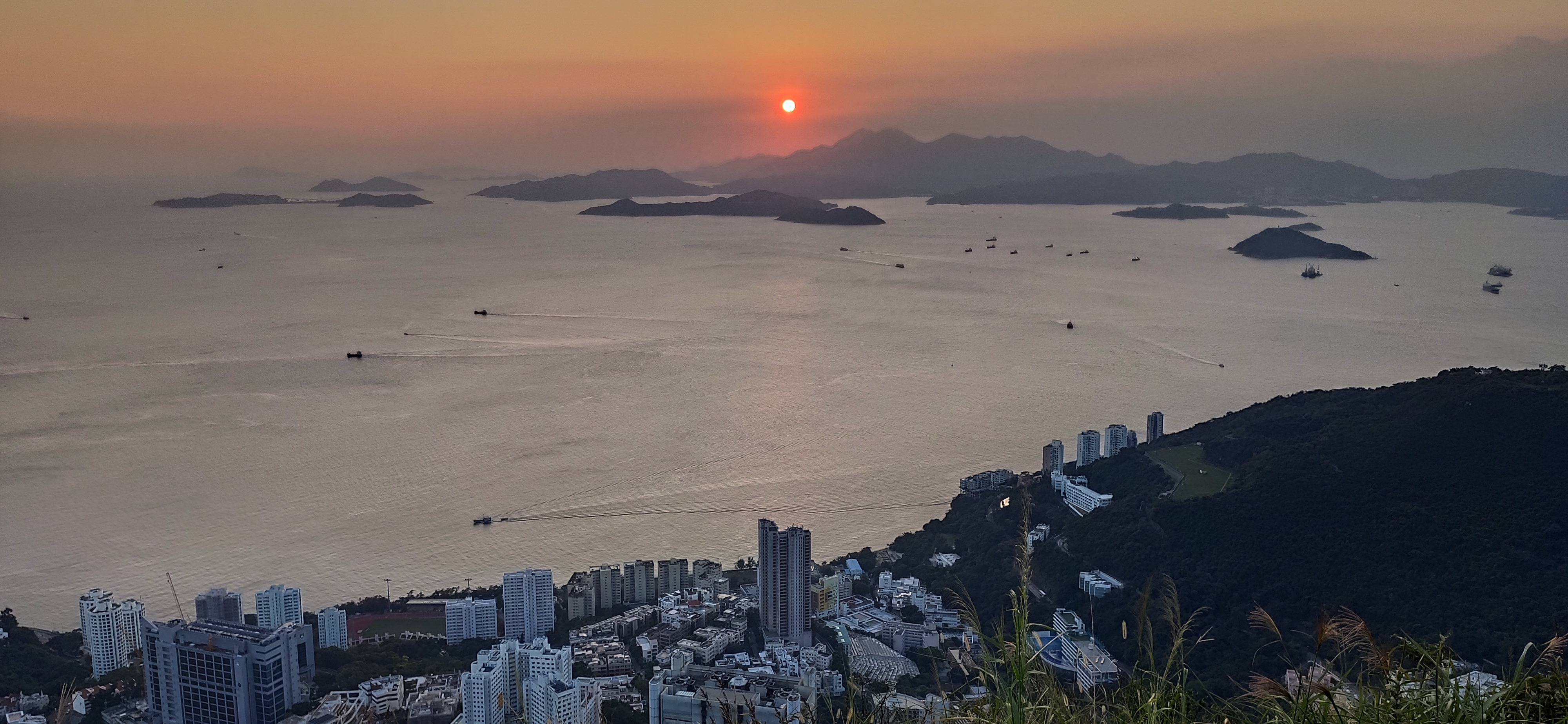 High West Sunset